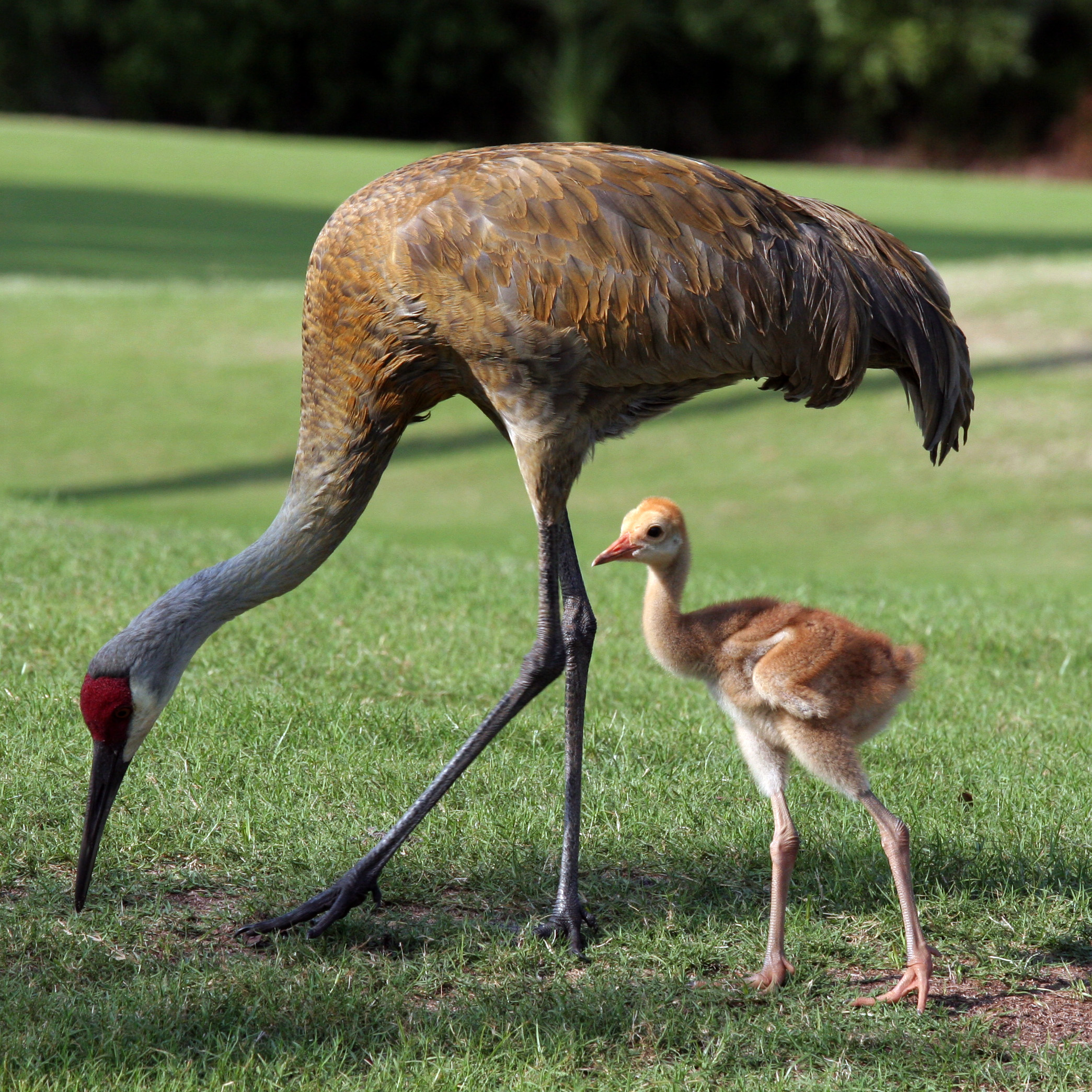 A adult Sandhill Crane with a chick